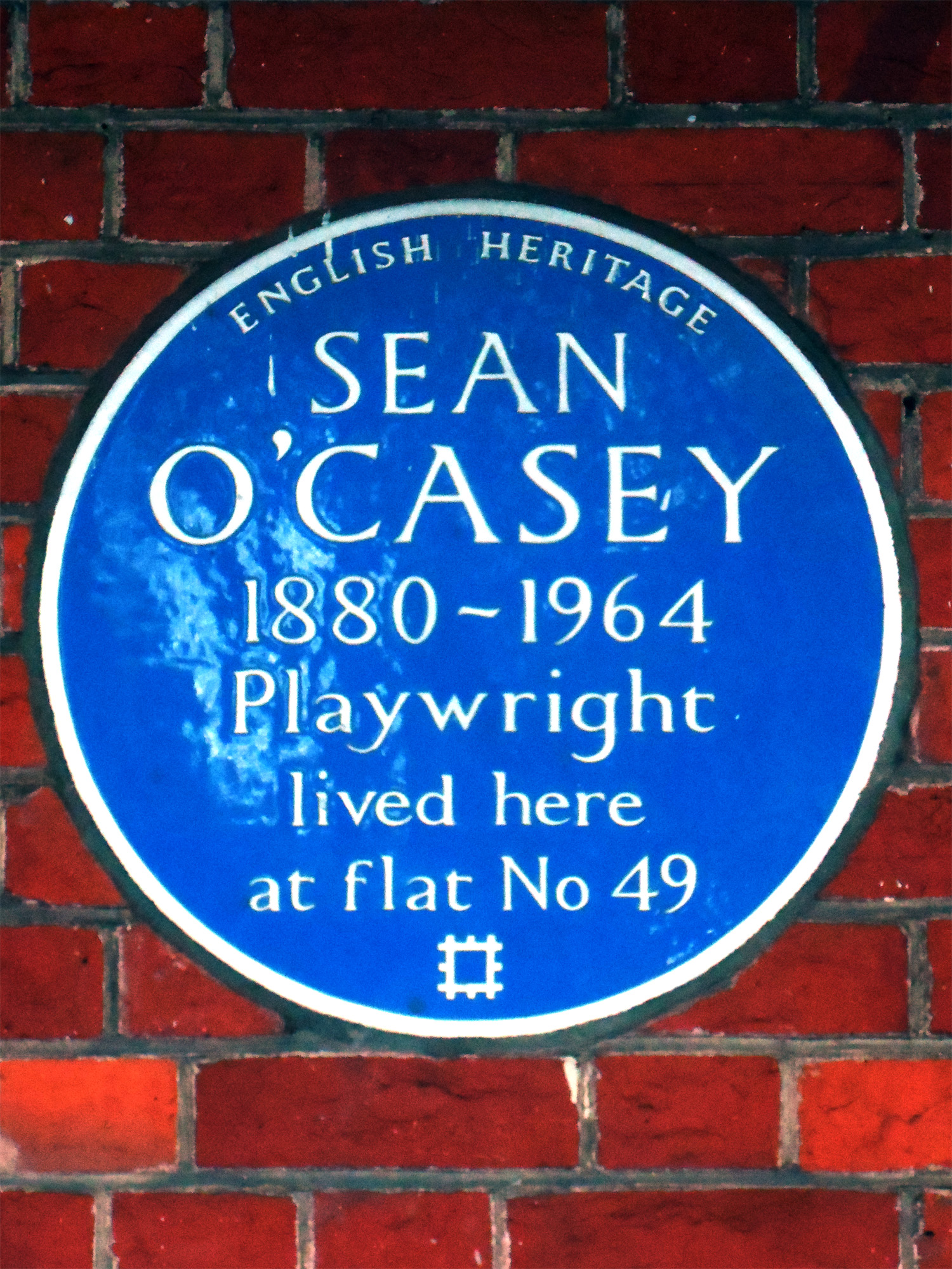 Blue plaque erected in 1993 by English Heritage at 49 Overstrand Mansions, Prince of Wales Drive, Battersea, London SW11 4EZ, London Borough of Wandsworth